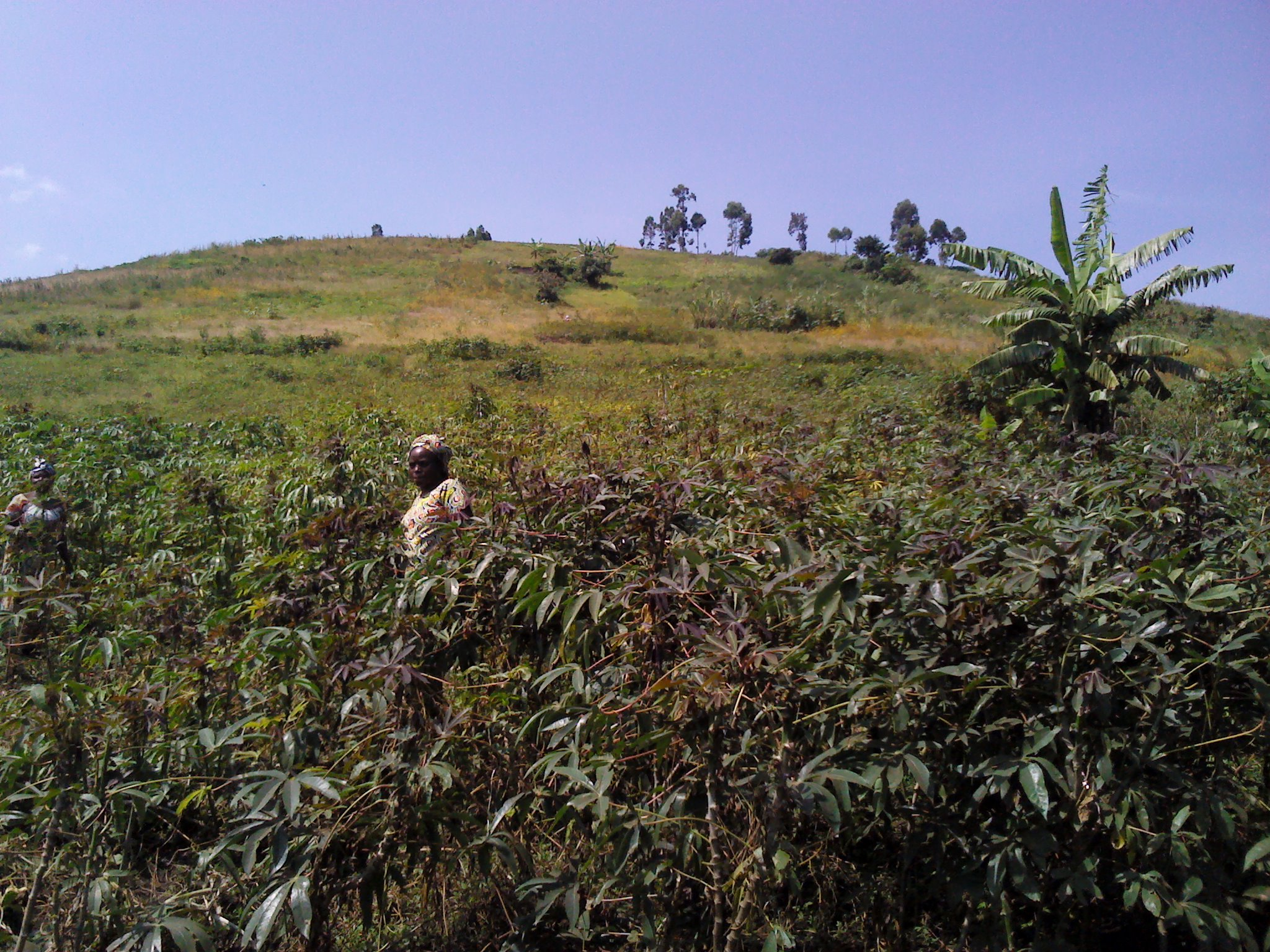 A woman in a cassava farm in DRC This is an image of "African people at work" from Democratic Republic of the Congo